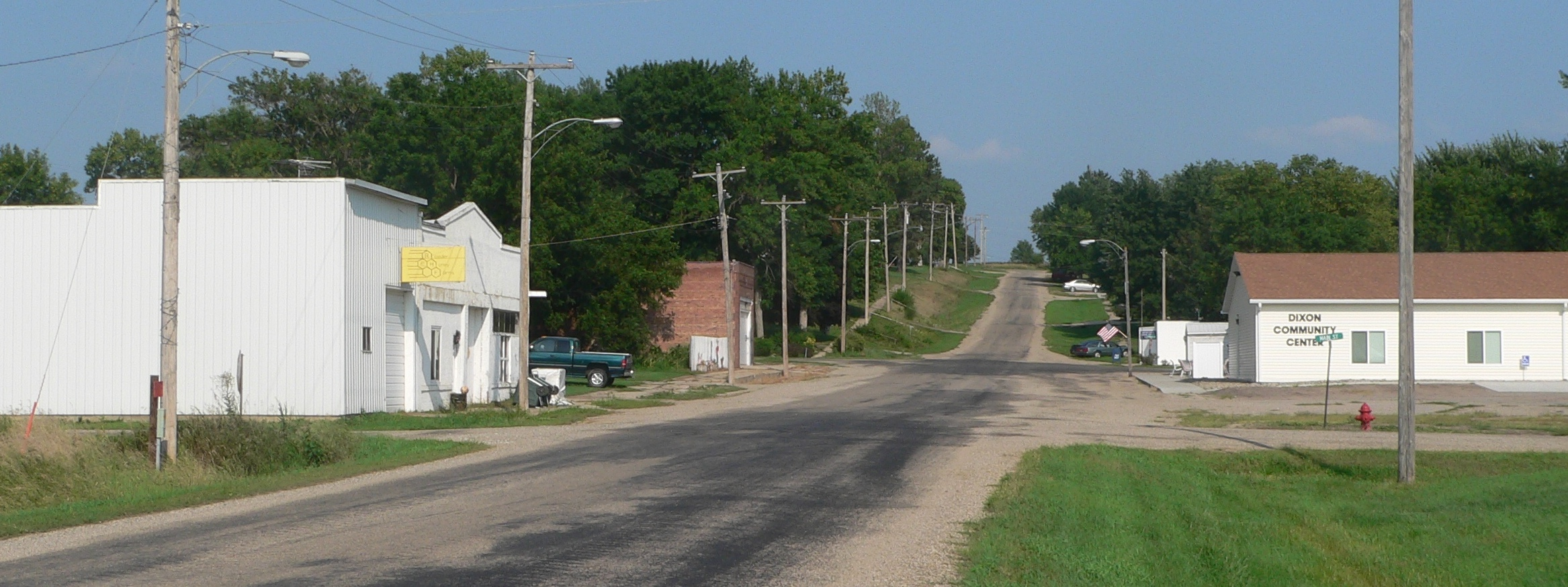 Downtown Dixon, Nebraska: 2nd Street, looking east from about Main Street.